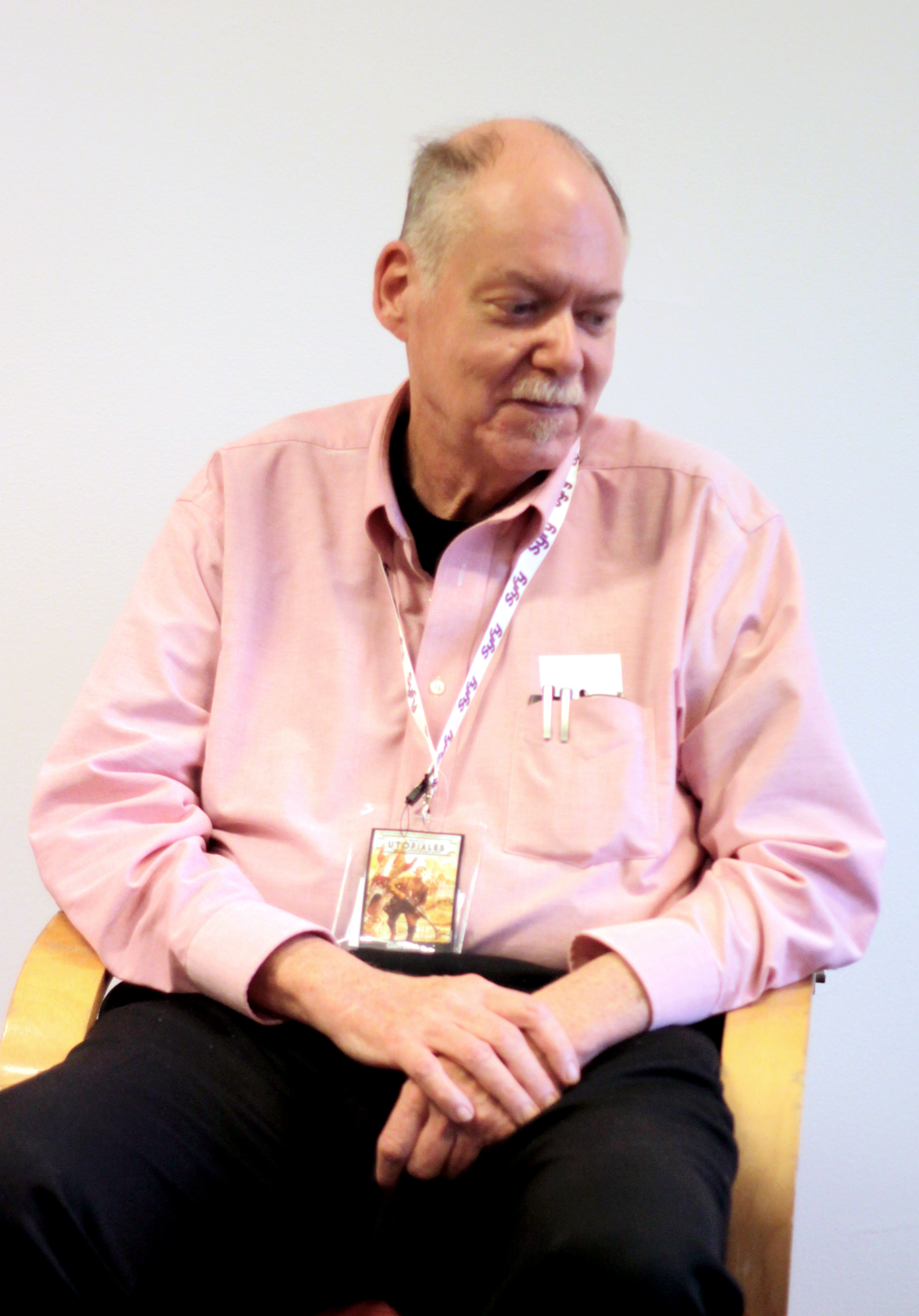 The American fantasy author Glen Cook at Utopiales 2011 (Nantes, France).